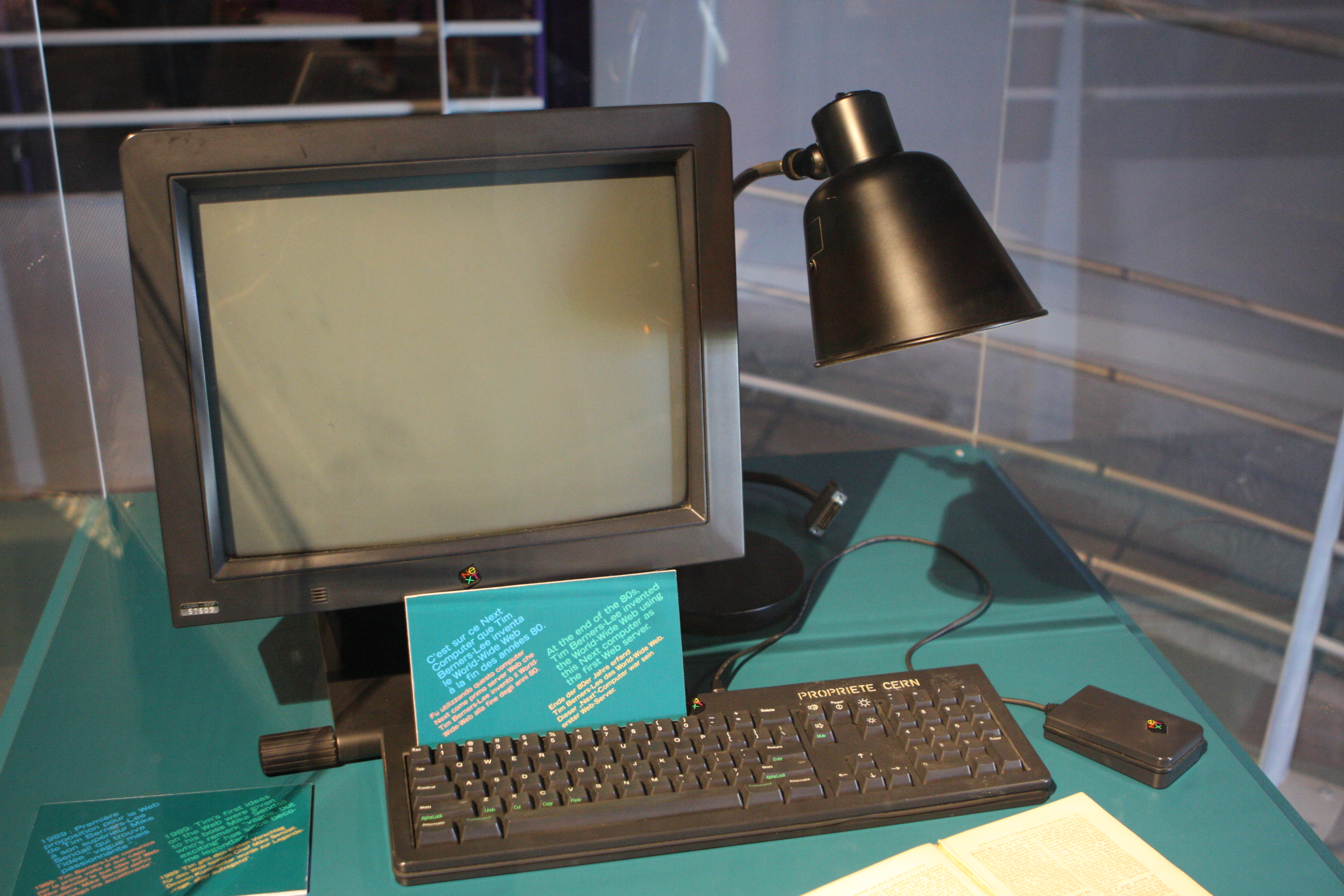 CERN - NEXT server, first web server